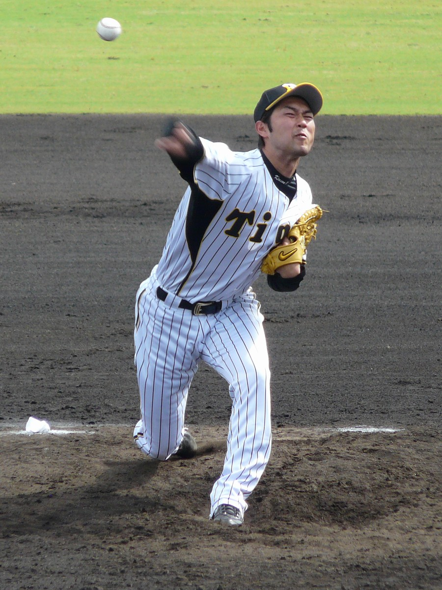 HT-Satoru-Kanemura20100509